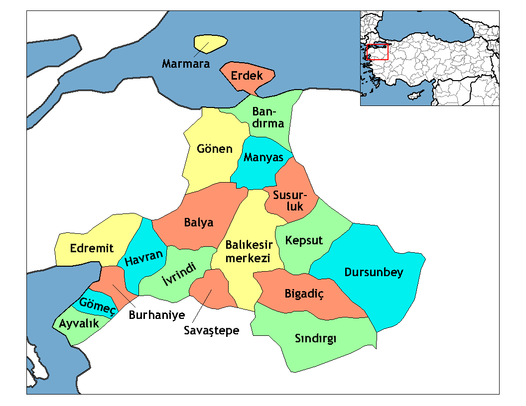 Map of the districts of Balıkesir province in Turkey. Created by Rarelibra 17:24, 1 December 2006 (UTC) for public domain use, using MapInfo Professional v8.5 and various mapping resources. Edited by One Homo Sapiens Corrected text where İ,Ş,ı,ğ,or ş occurs in name. Source: [statoids-com]. Increased font size and enhanced color differences among adjacent districts.